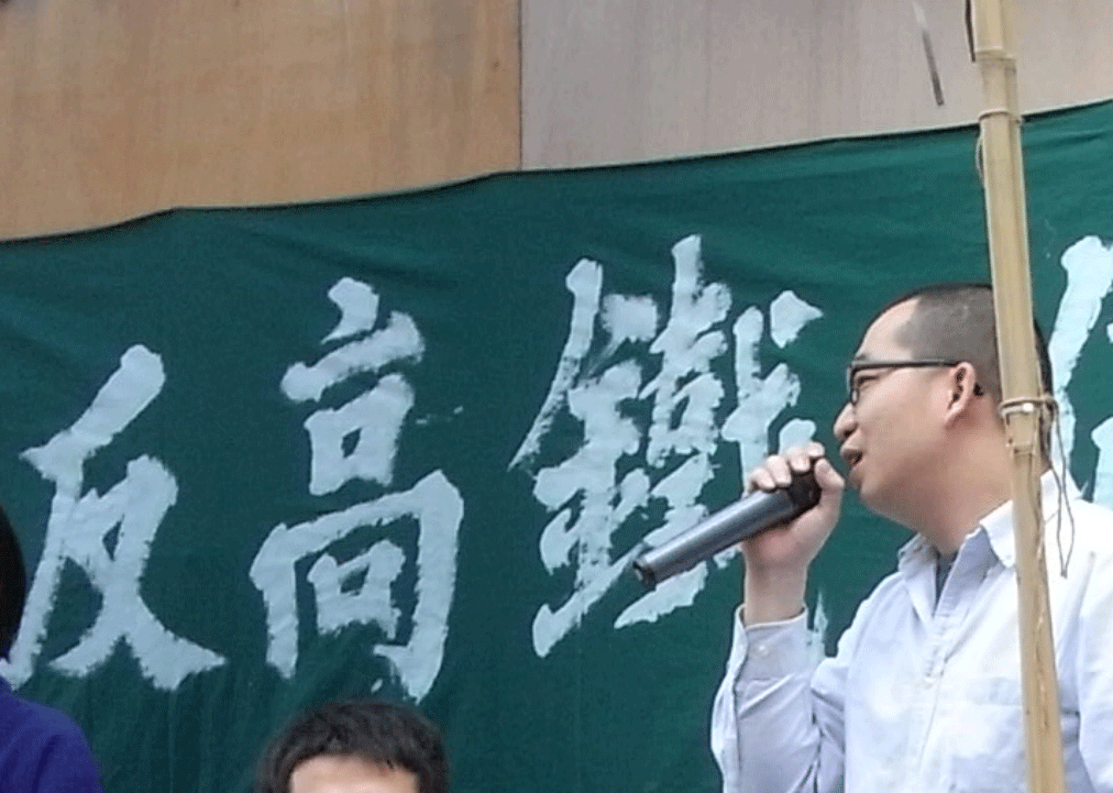 香港知識分子 - 陳景輝